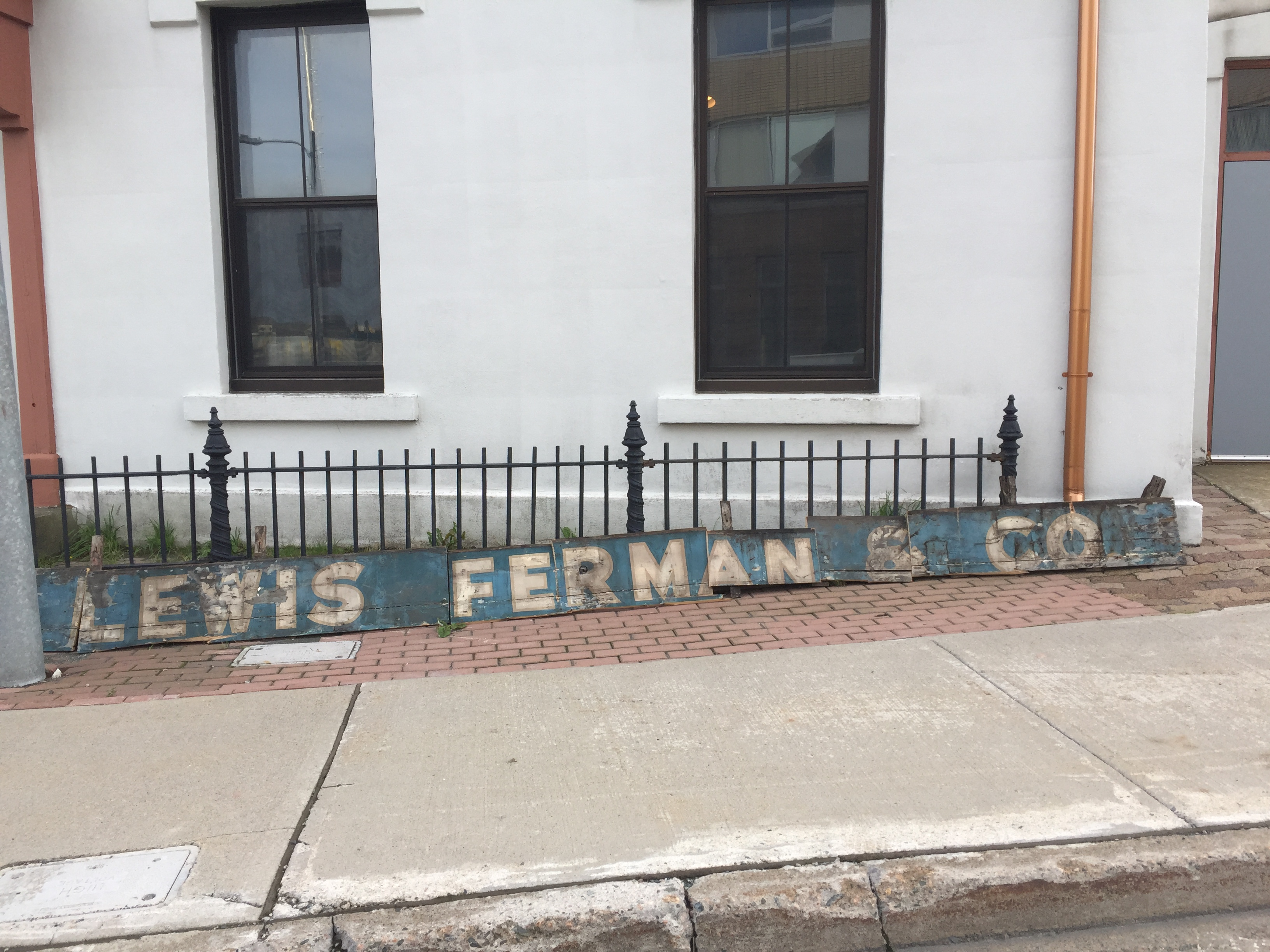 The Lewis Ferman & Co. sign, temporarily laid out in front of the offices of the Heritage Foundation of Newfoundland and Labrador, 1 October 2018.